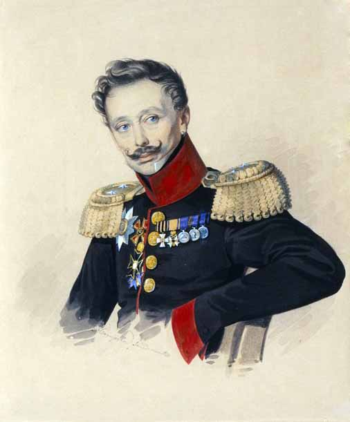 Fyodor Fyodorovich Gagarin